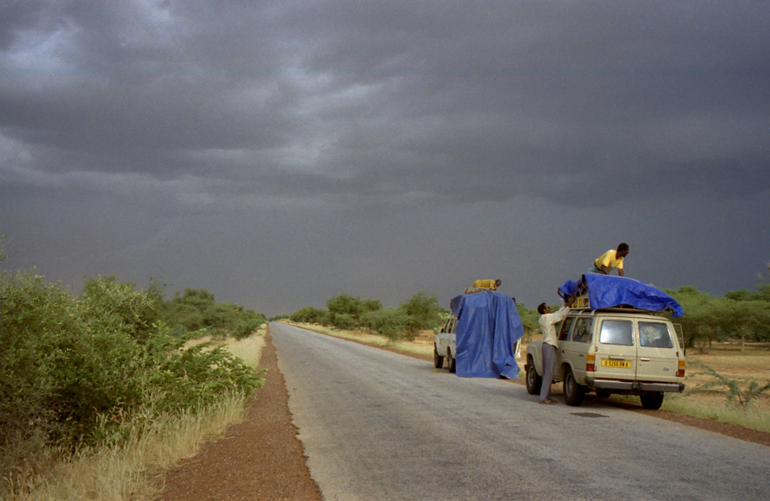 Covering up for impending rain.